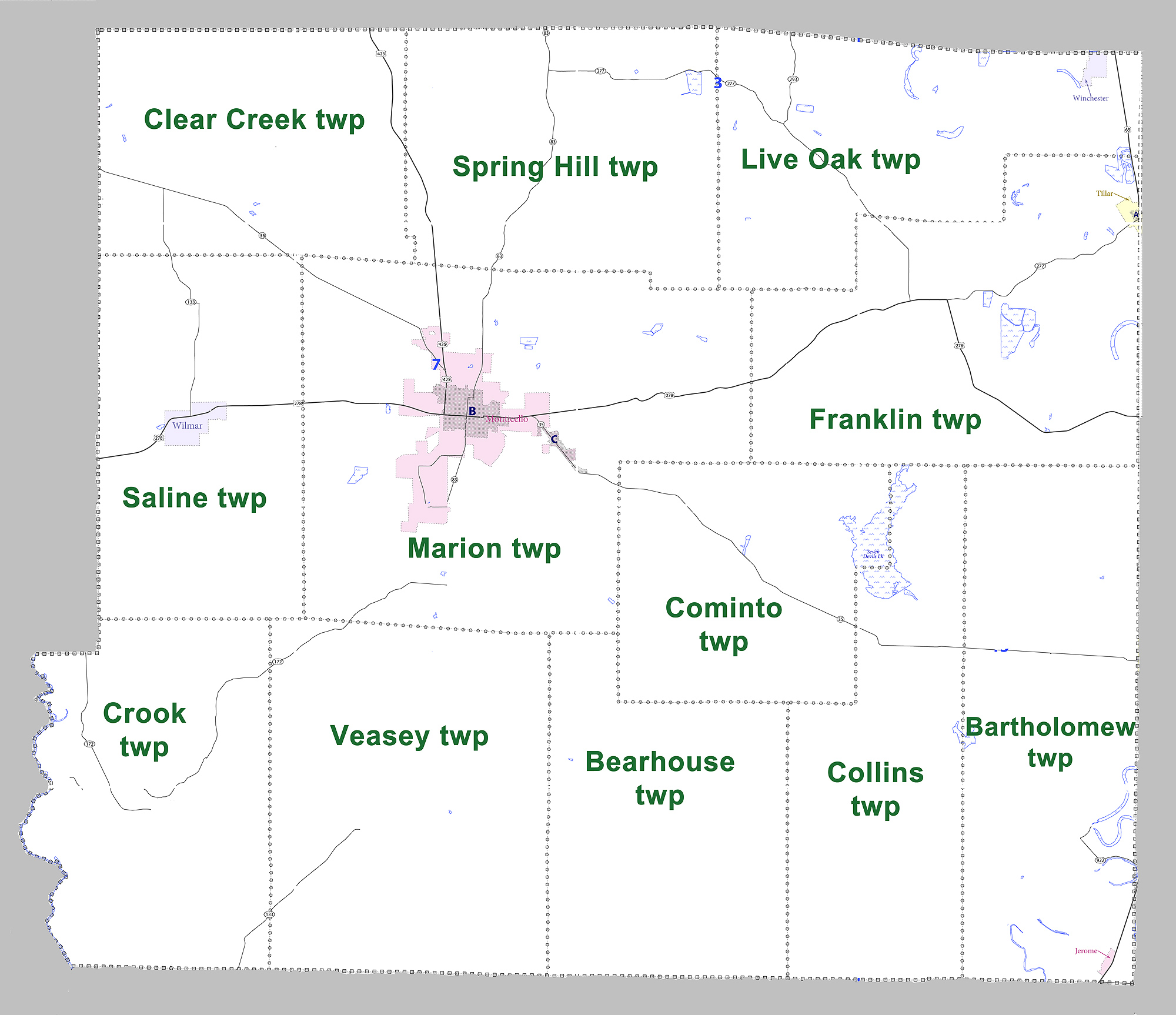 Large map showing townships in Drew County, Arkansas. Modified from US census map (for 2010 census) for Drew County, Arkansas